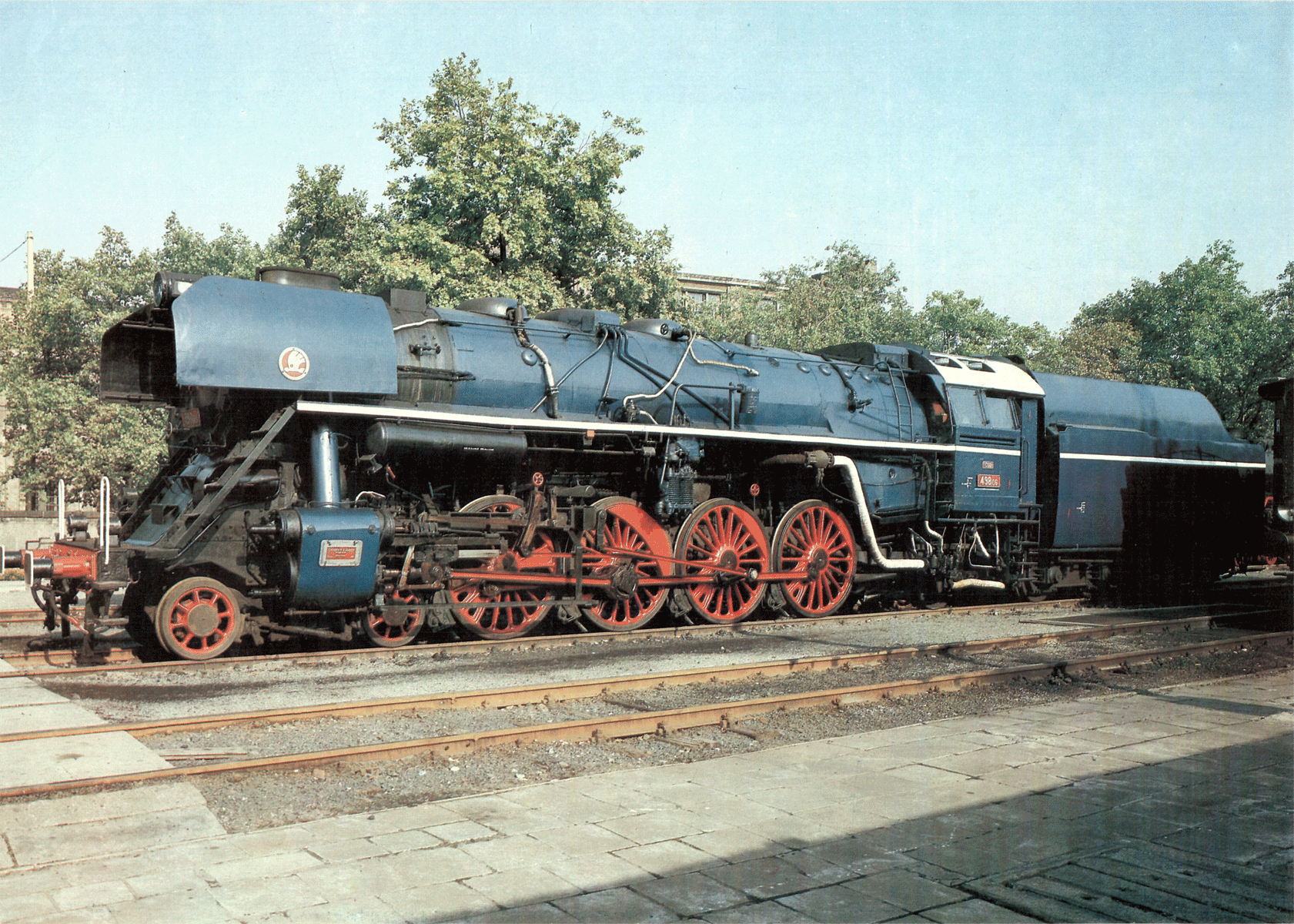 steam locomotive number 498 106 of the Czechoslovak State Railways